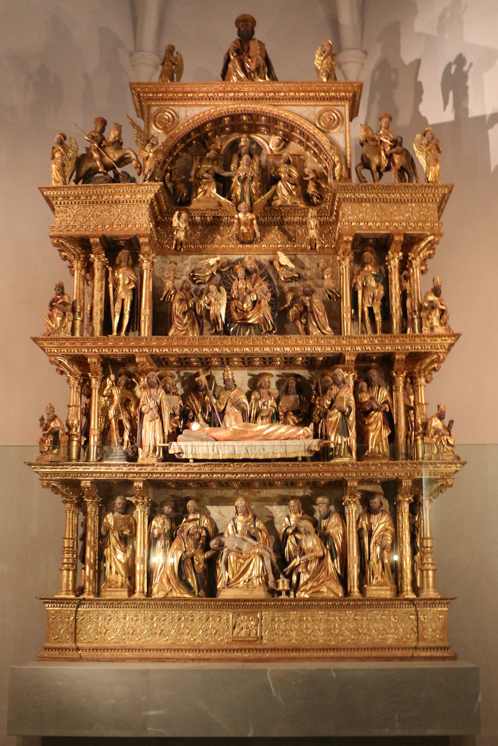 Mortegliano Altarpiece by Giovanni Martini